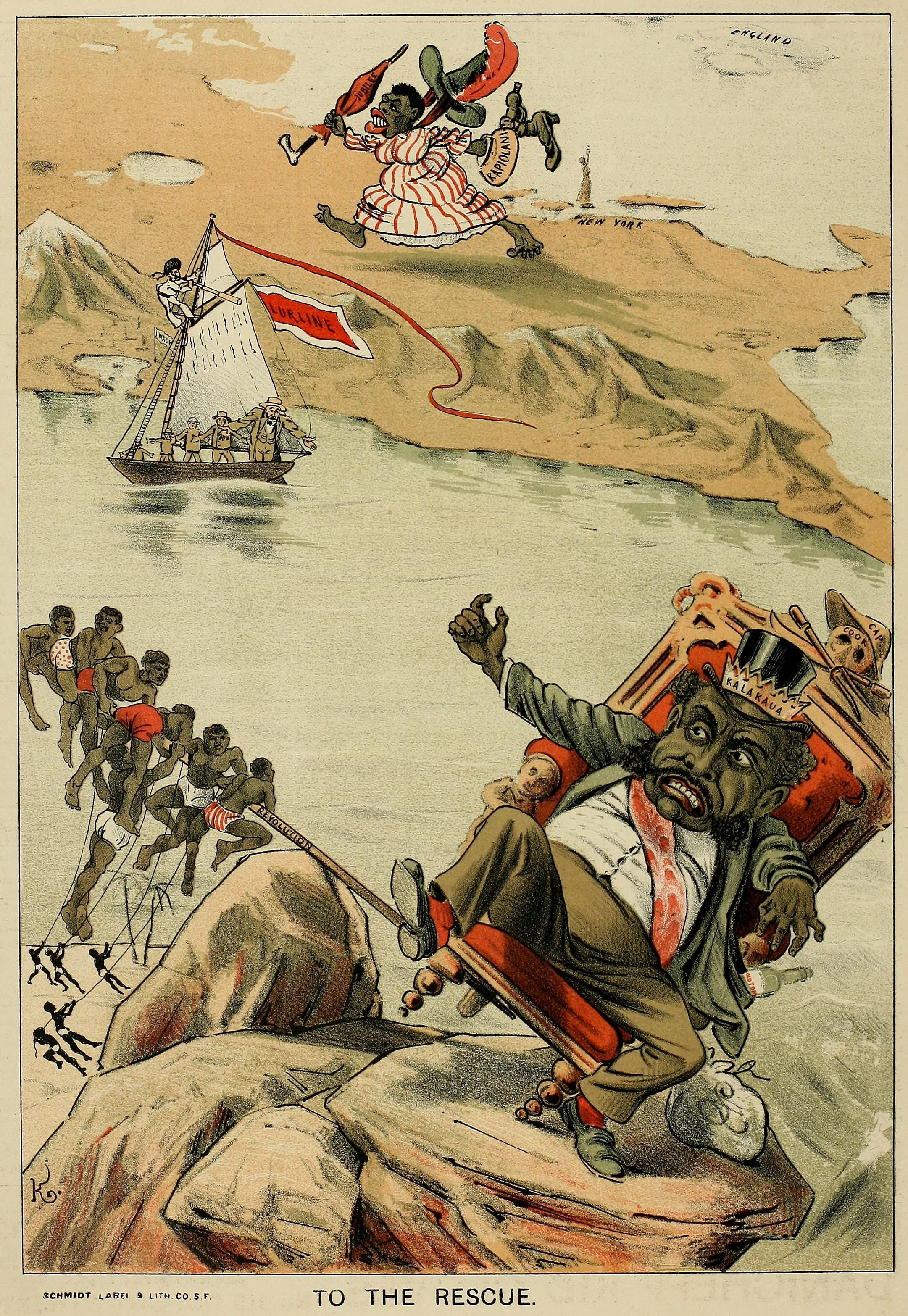 "King Kalakaua sits on a throne being toppled by the "revolution". The schooner "Lurline" is in the background. A barefoot woman rushing back from the Jubilee represents Kapi'olani." The cartoon is making fun of the Bayonet Constitution. Published in The Wasp.